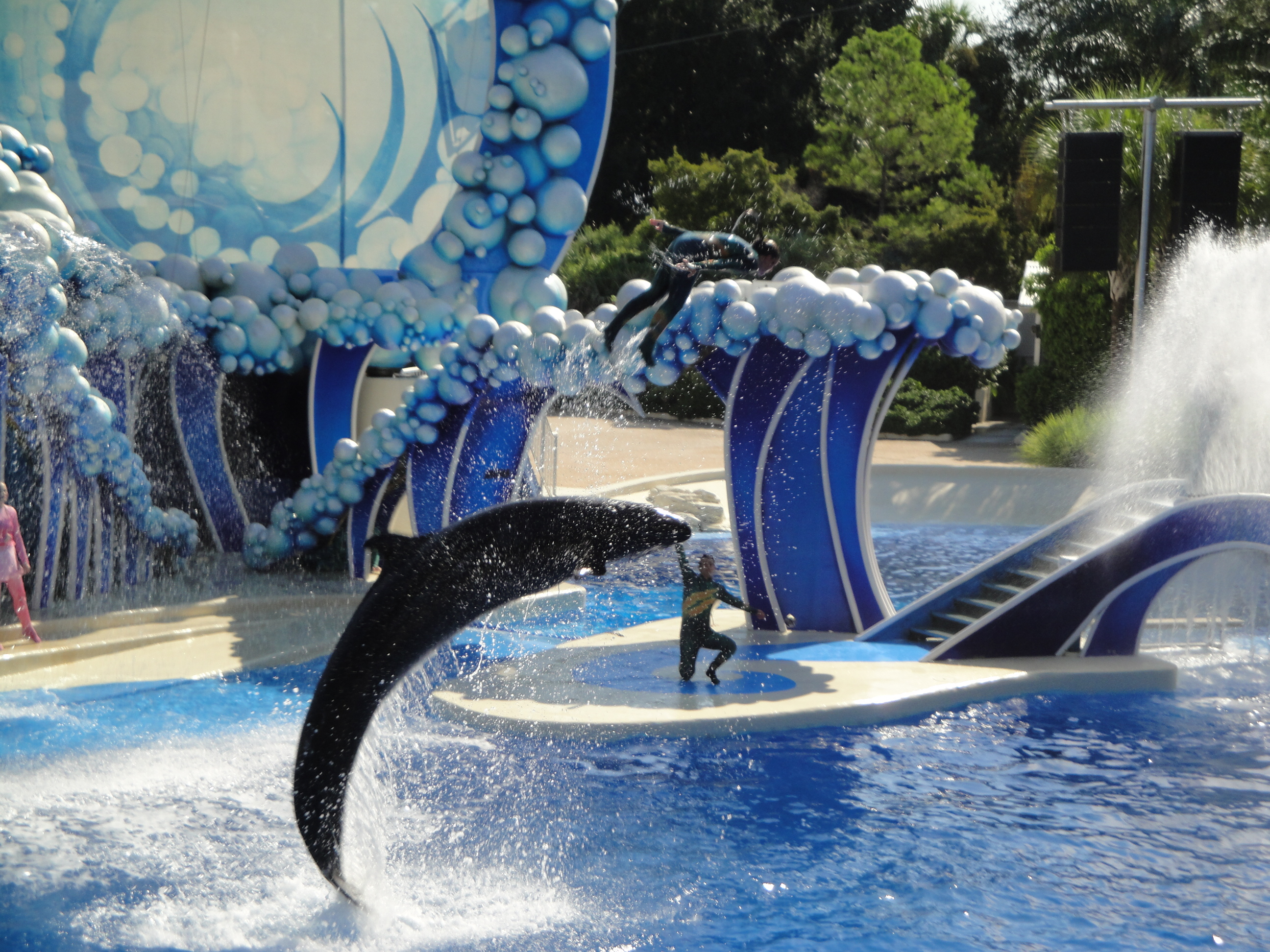 Sea World Show: Blue Horizons (Whale & Dolphin Theater)